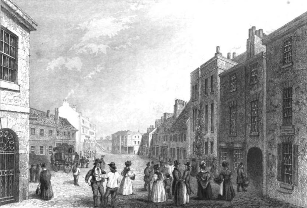 An engraving of Brigg marketplace in 1836.